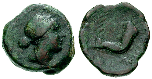 Picenum, Ancona. Circa 300-250 BC. Æ 21mm (9.99 g). Head of Aphrodite right; M behind ΑΓΚΟΝ Right arm holding palm branch. SNG ANS 109; Rutter, HN 1. Near VF, mottled green and brown patina with a trace of red. Rare. From the David Freedman Collection.